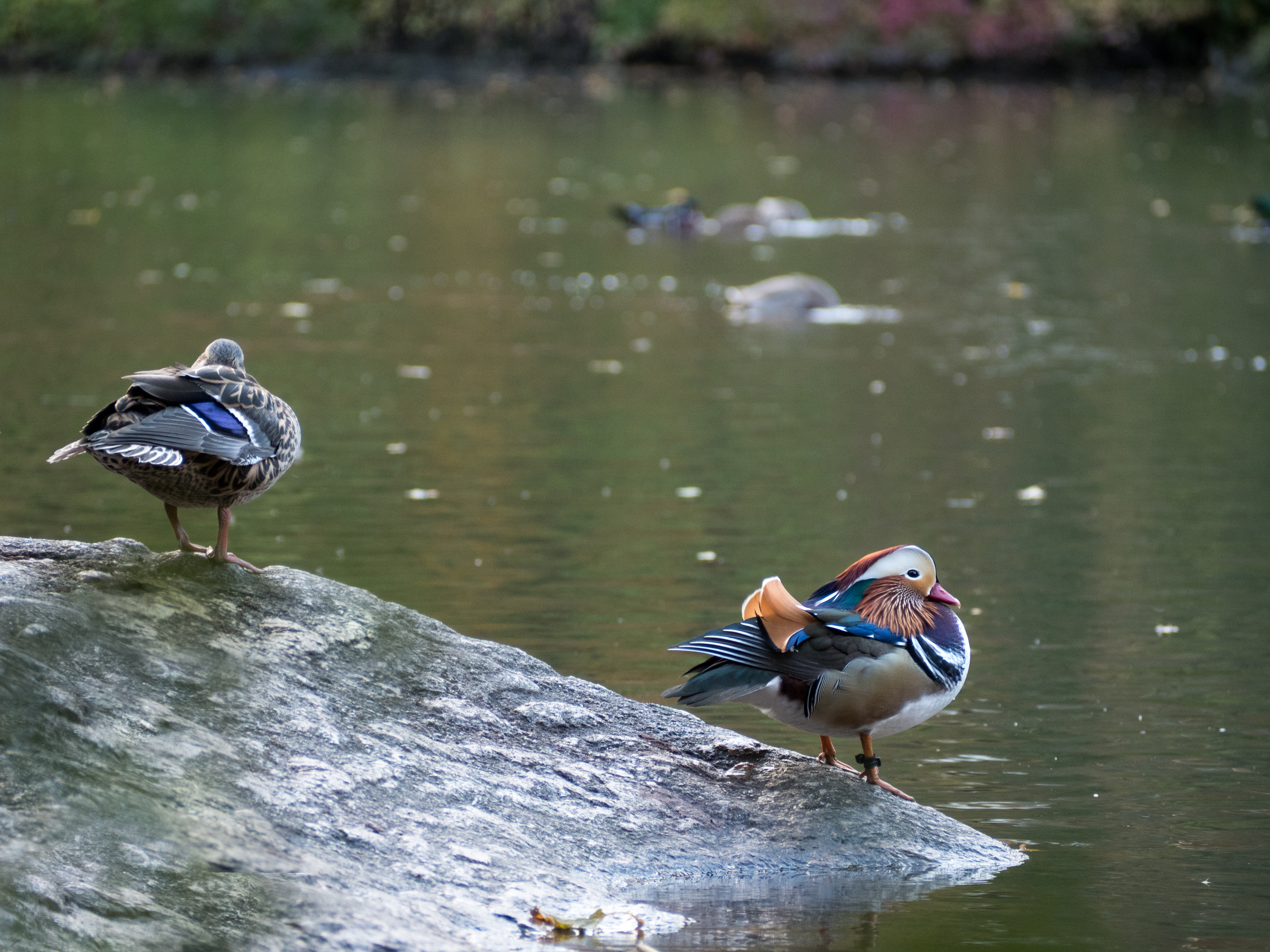 In October 2018, a Mandarin duck (Aix galericulata) appeared in Central Park in New York. There is no clear answer as to how it, a bird not typically seen on this side of the planet, managed to get here.